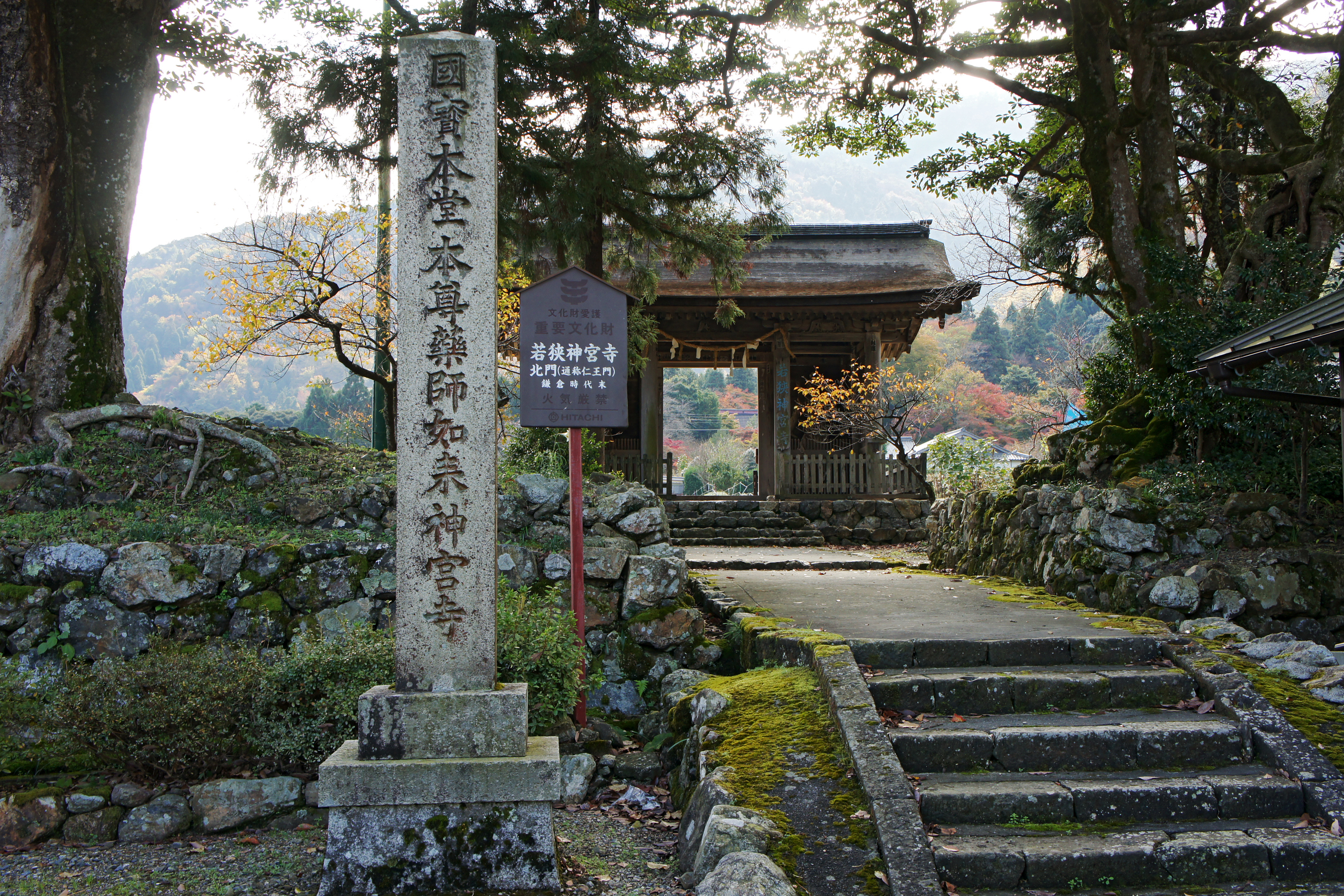 Jingu-ji in Obama, Fukui prefecture, Japan.